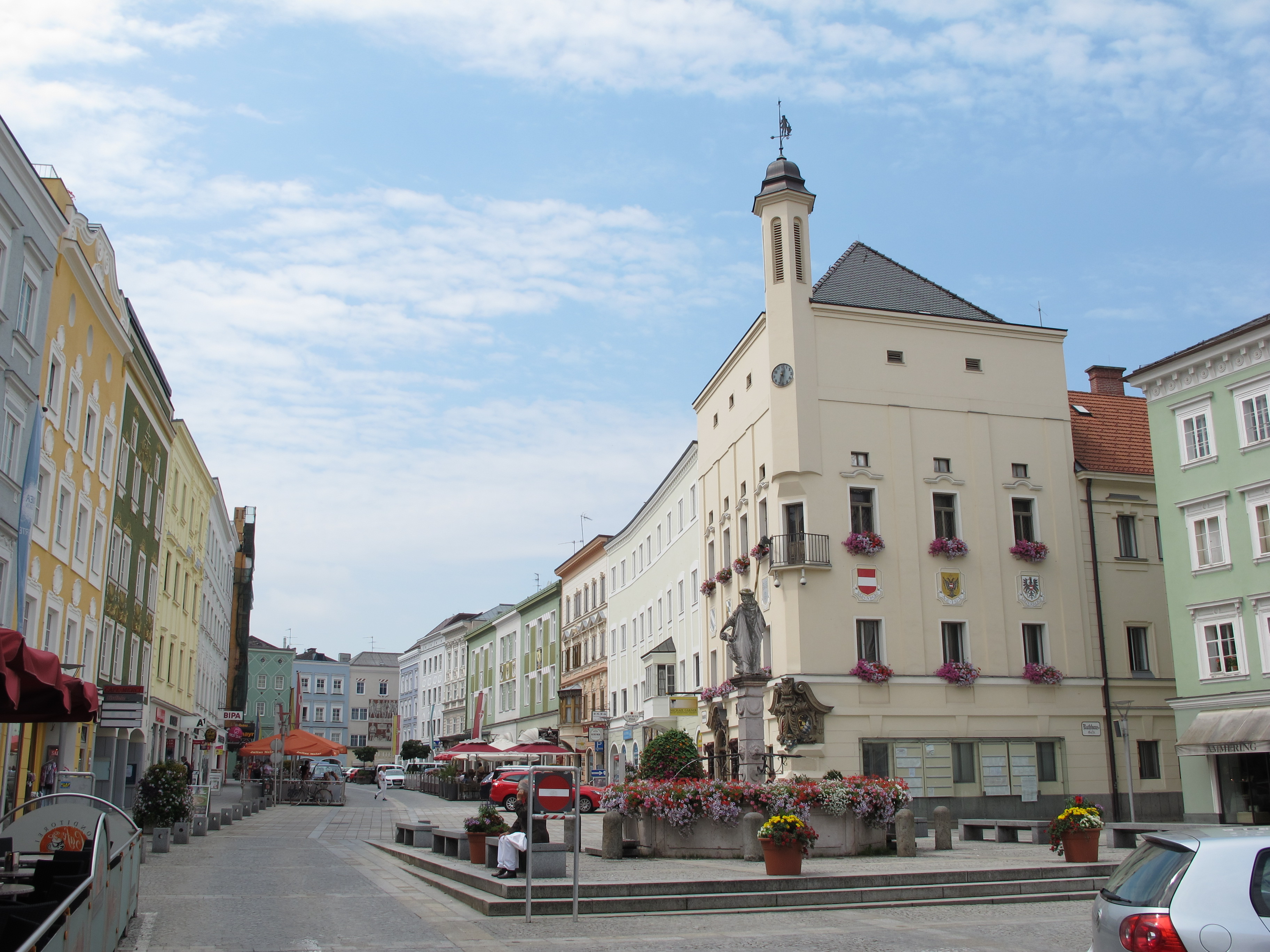 Hauptplatz Ried im Innkreis